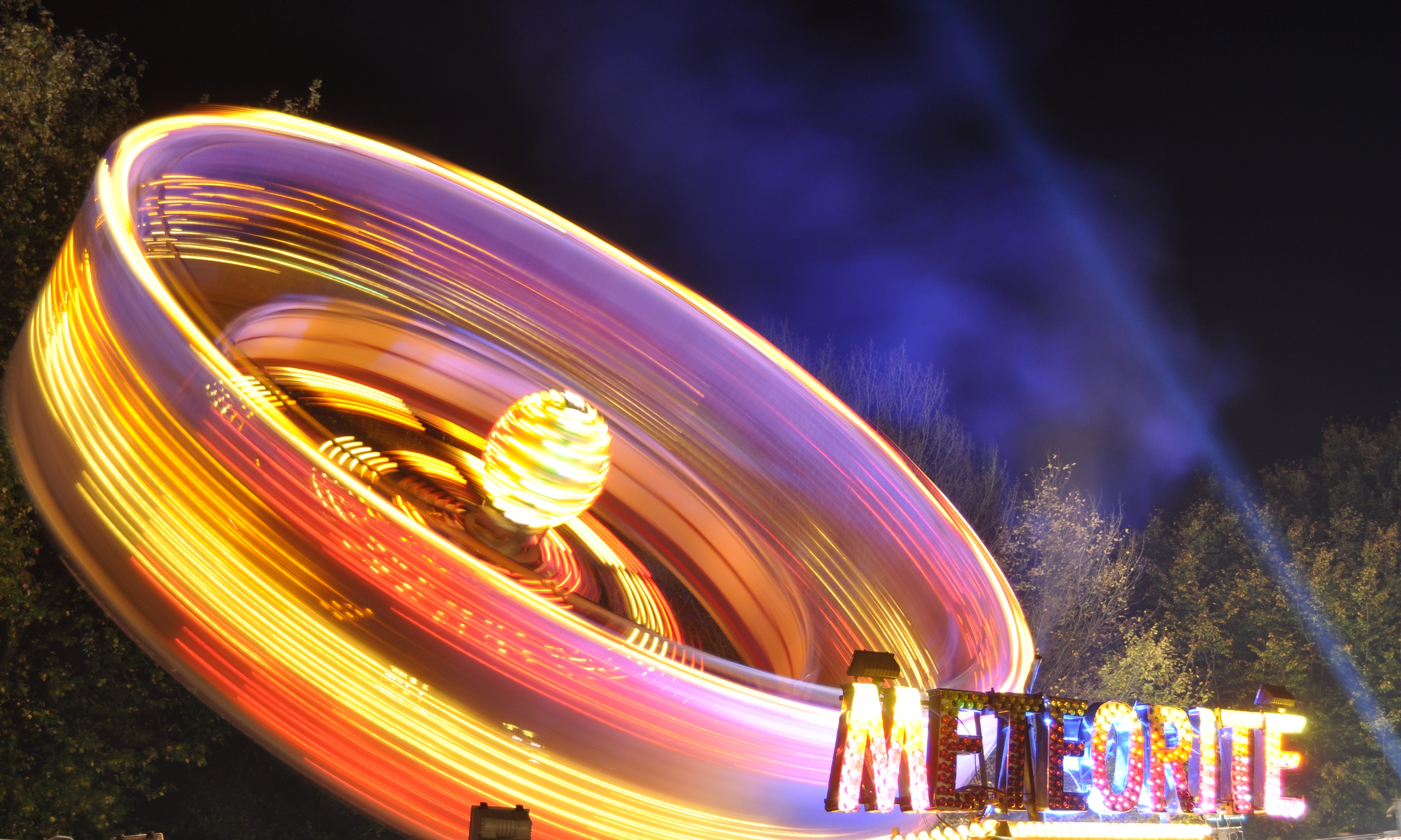 The 'Meteorite' fairground ride at Worden Park, Leyland, Lancashire, UK. The fairground was setup for the annual 5 November Bonfire Night that is celebrated across the country.